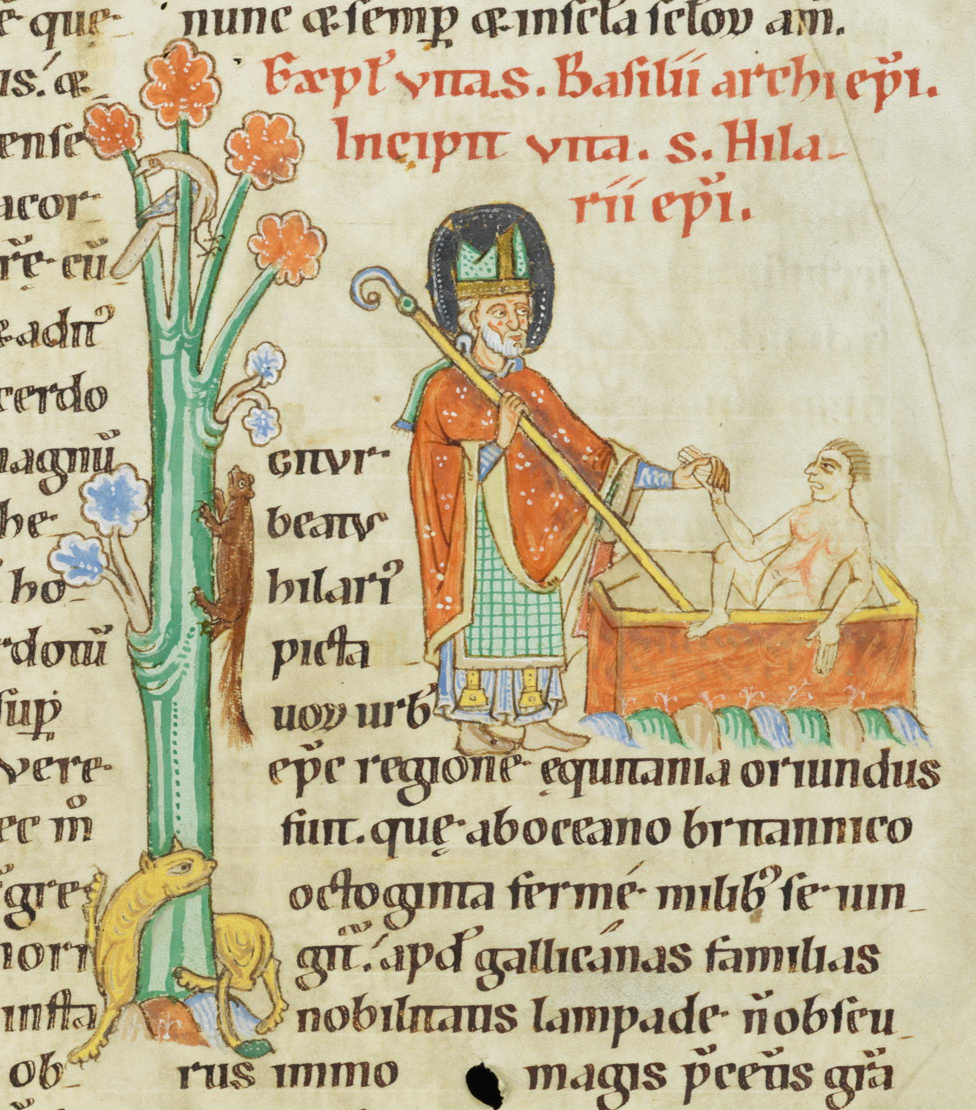 Illumination from the Passionary of Weissenau (Weißenauer Passionale); Fondation Bodmer, Coligny, Switzerland; Cod. Bodmer 127, fol. 144r